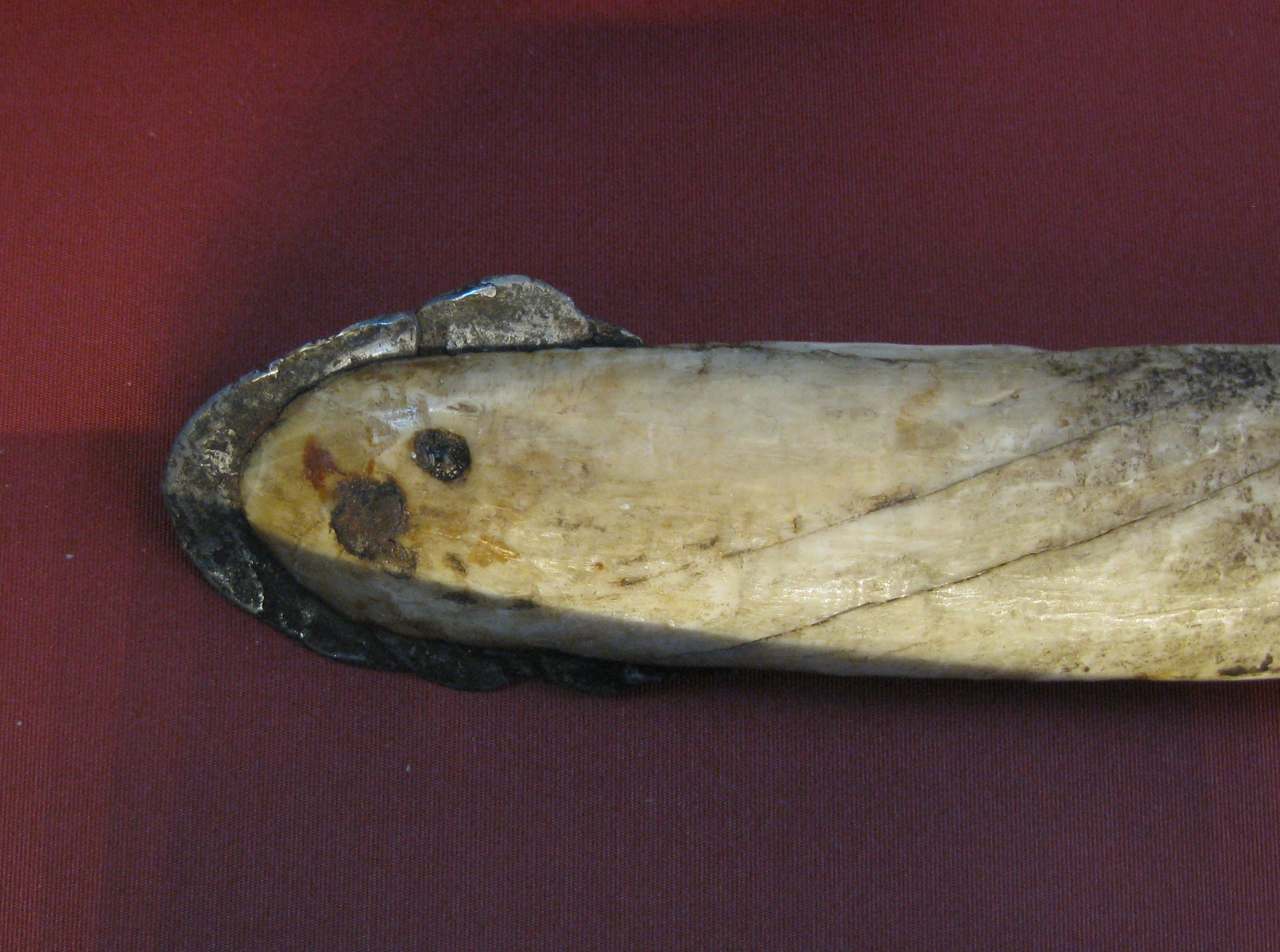 Photo of an Inuit lance with an iron meteorite head (Cape York meteorite) in the british museum.